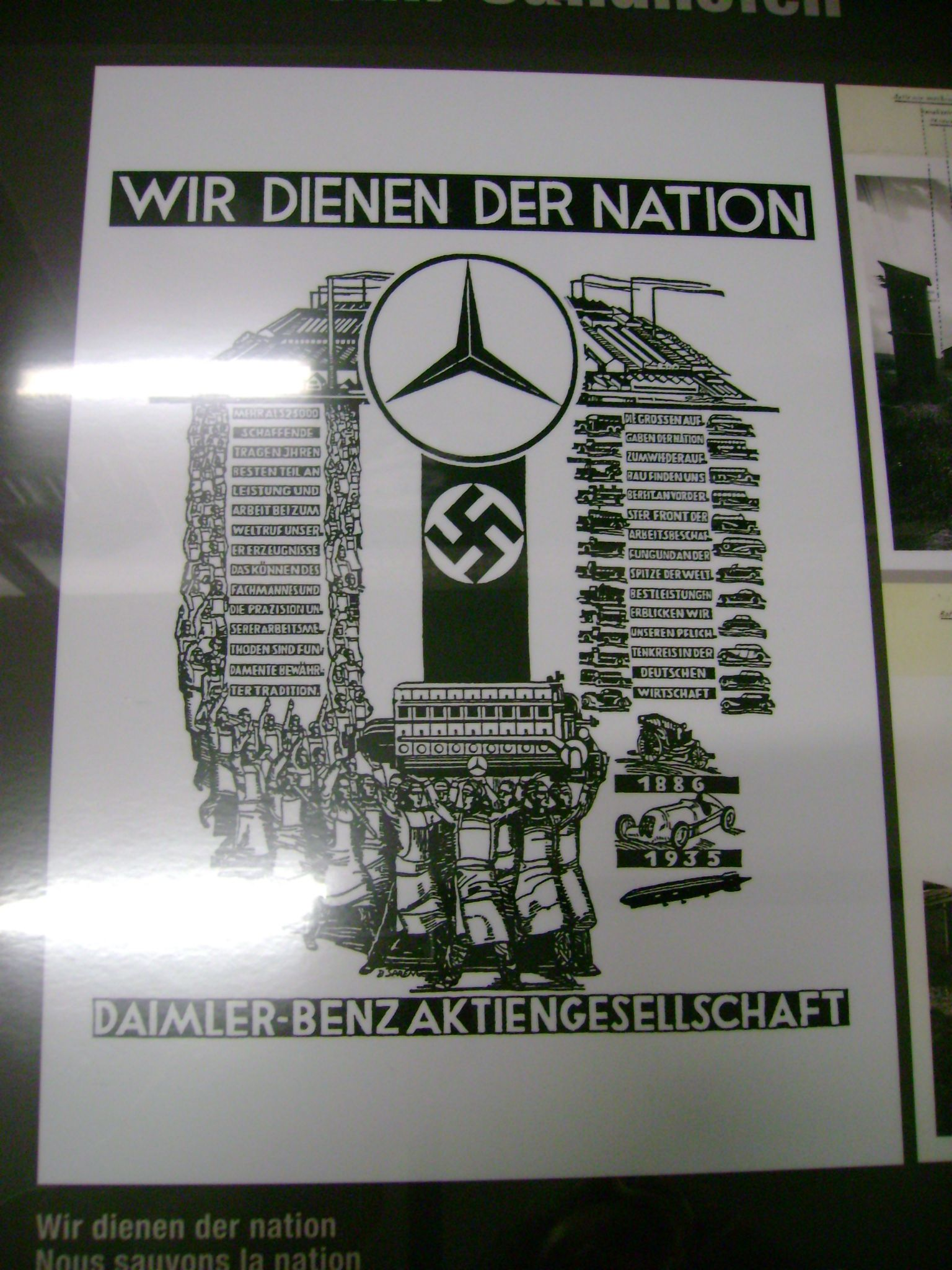 The Nazi concentration camp Natzweiler-Struthof in Alsace, modern France